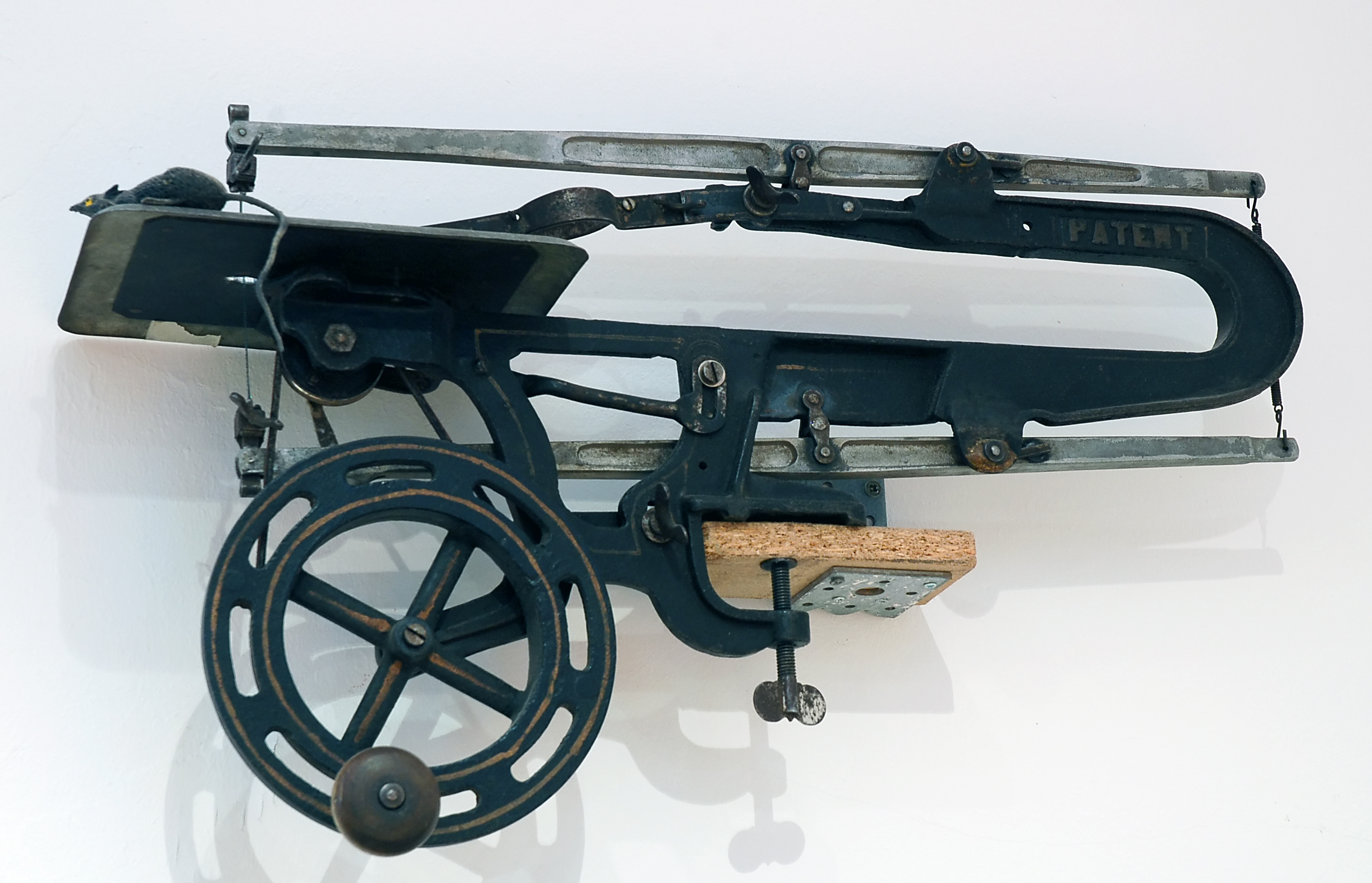 Hand-operated scroll saw, around 1900, seen in a cembalo-maker's workshop